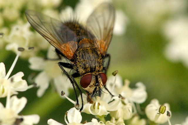 Allophorocera ferruginea from Commanster, Belgian High Ardennes .